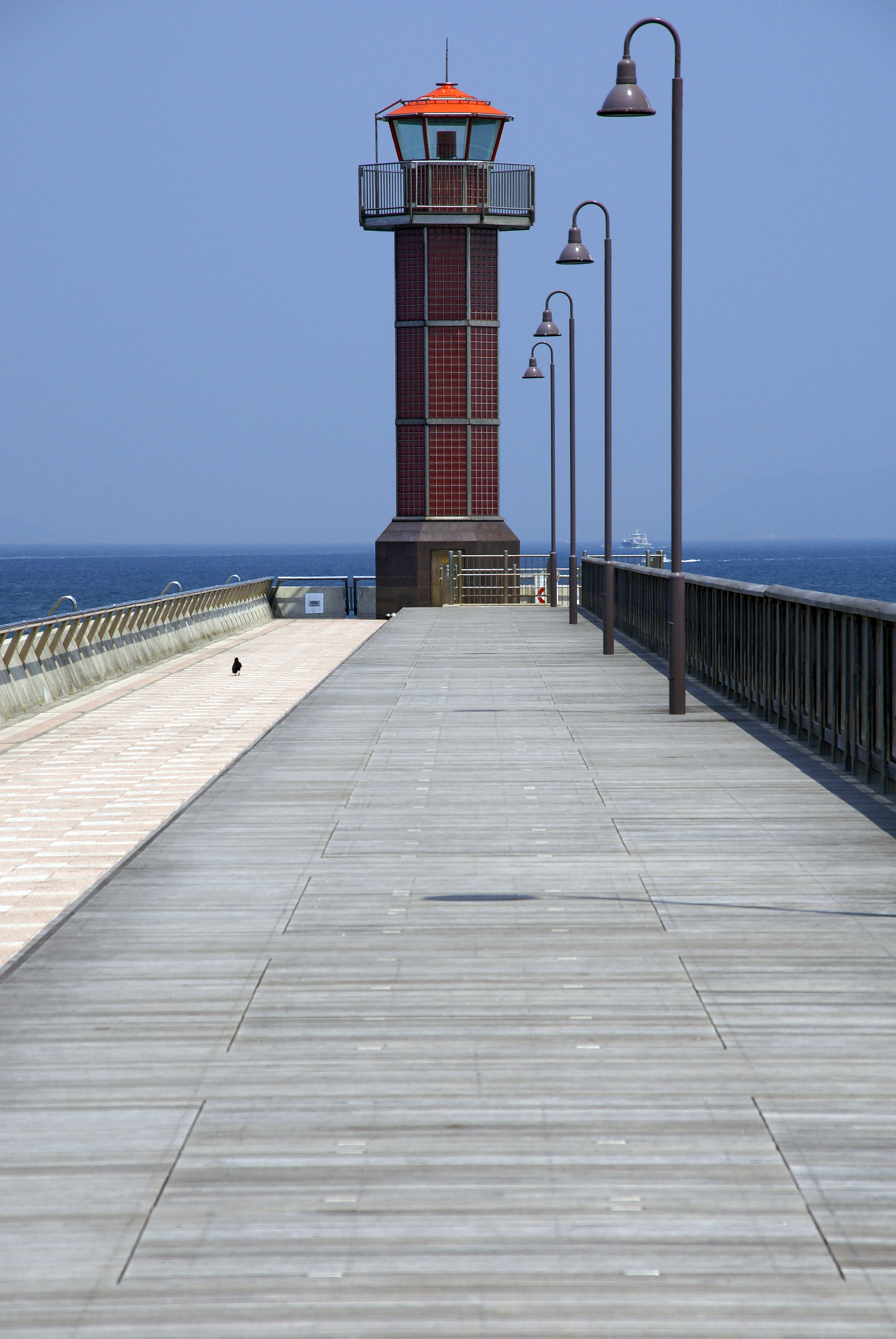 Tamamo Lighthouse on Tamamo Breakwater in Sunport Takamatsu, Kagawa prefecture, Japan